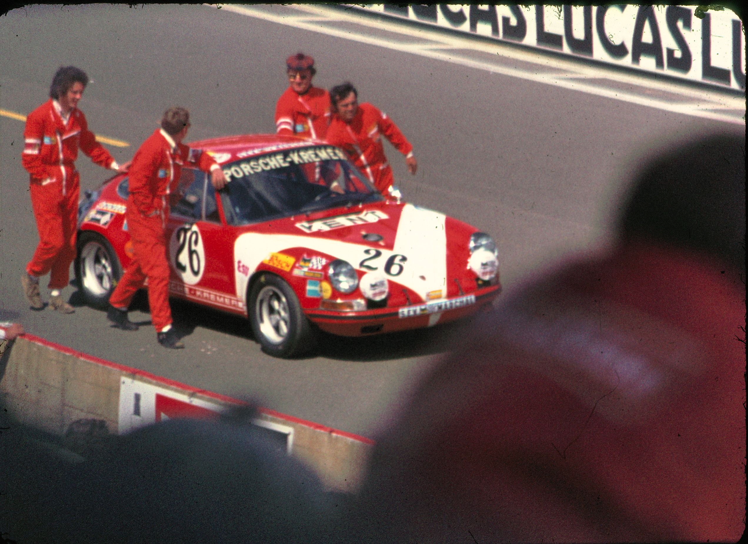 Porsche 911 S N°26 Nicolas Koob Technique : Catégorie : GTS Moteur : F6 Porsche 2380 cm3 Pilotes : Nicolas Koob Gunther Huber Erwin Kremer